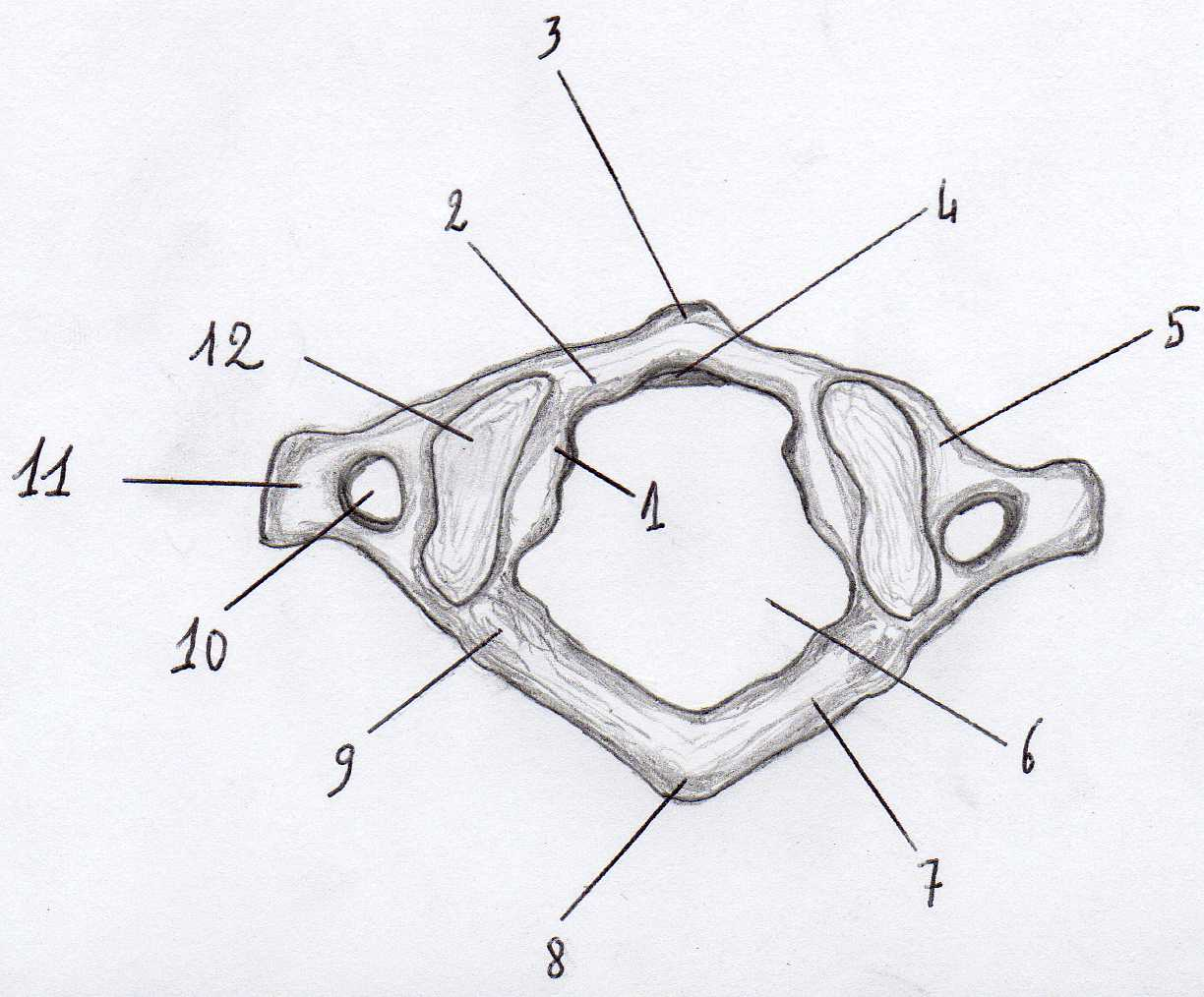 Superior view of human first cervicalis vertebra, atlas or C1.